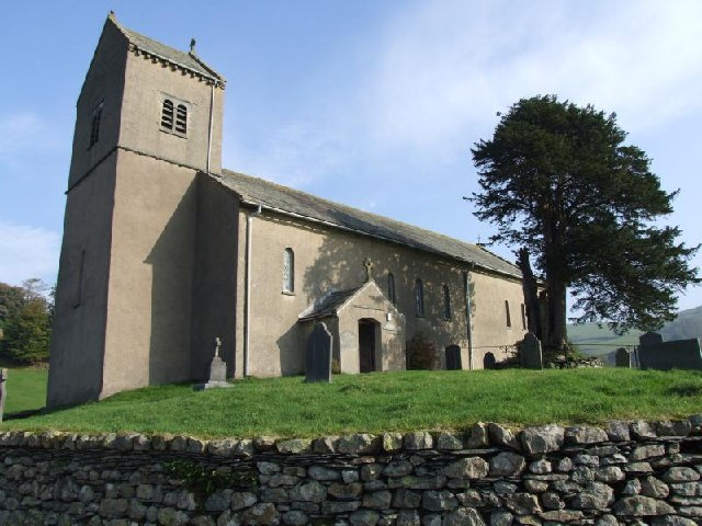 Kentmere Church; also known as the Church of St. Cuthbert, its graveyard and the ancient Yew (estimated as between 500 and 1000 years old).